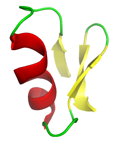 This is a structure of Chlorotoxin.